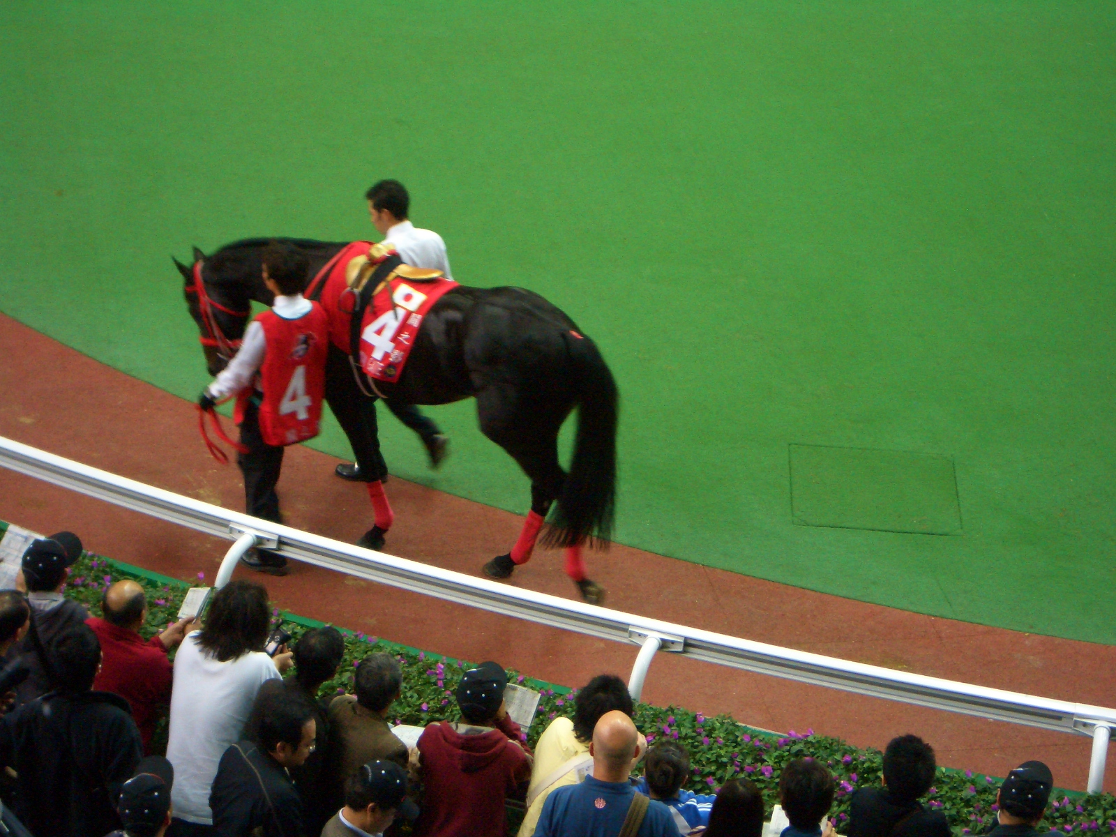 Shadow Gate (japanese:シャドウゲート for 2007 Hong Kong Cup